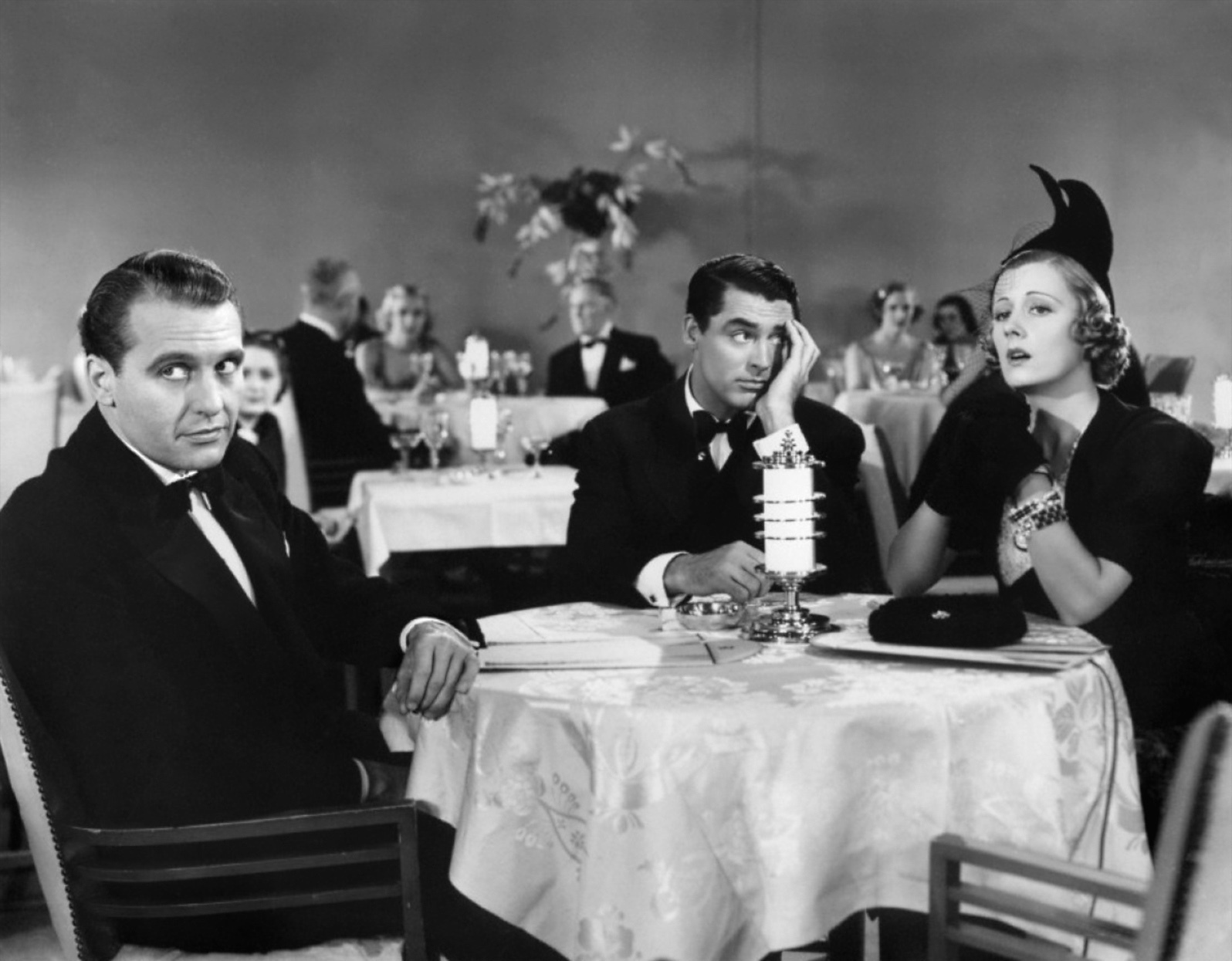 Photo from the 1937 film The Awful Truth from the trade magazine (Wid's) The Film Daily. Irene Dunne wears an evening gown and hat designed by Robert Kalloch. Note that the uploaded photo is a better, larger copy of the one scanned from the magazine. A search was done for renewal in periodicals for the years 1965 and 1966. There were no listings for the title "Film Daily". There's no evidence of continuing copyright on this magazine.